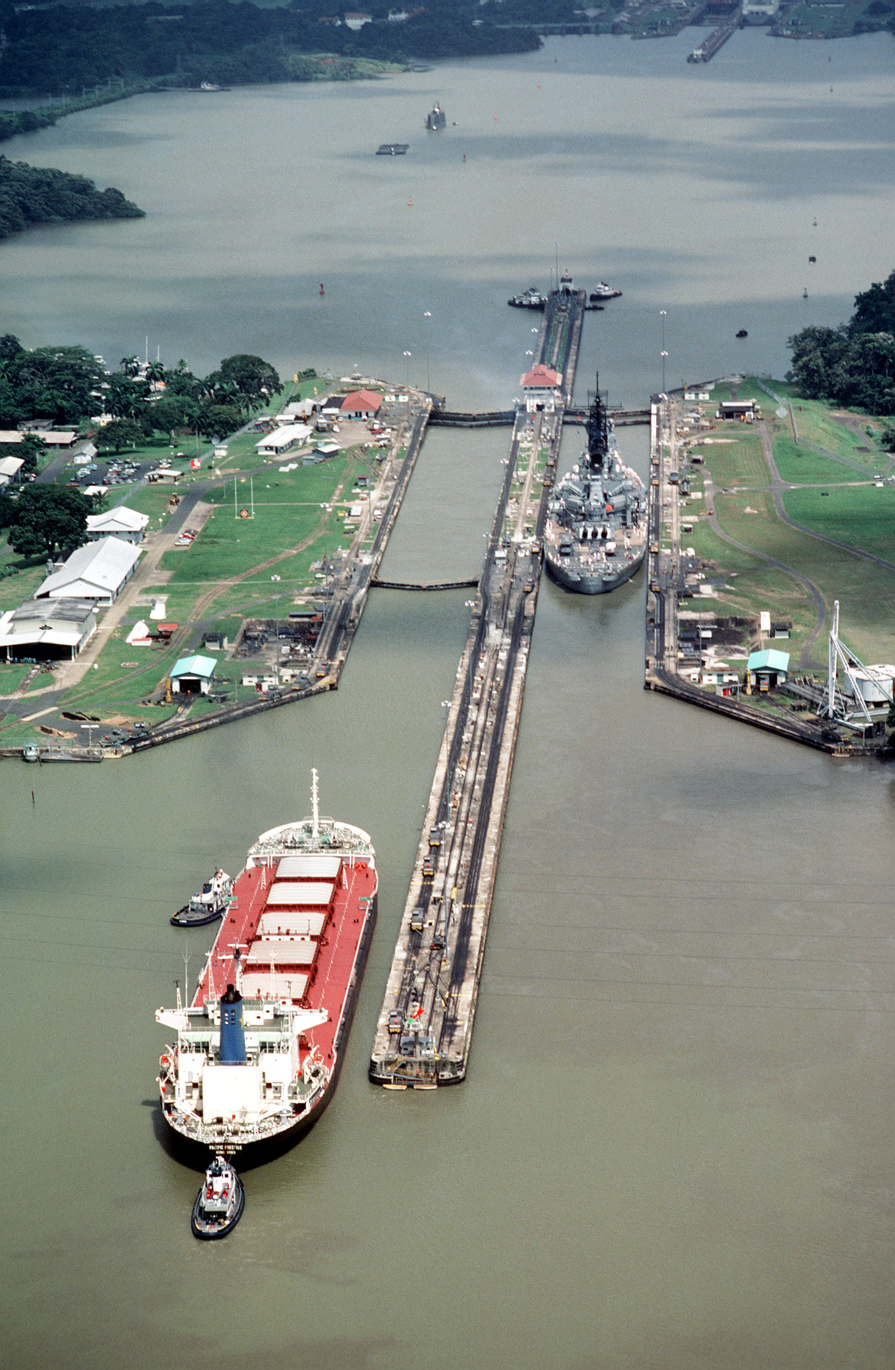 Aerial stern view of the battleship USS IOWA (BB 61) entering the Pedro Miguel Locks during its transit of the canal. The bulk ship Pacific Prestige, out of Hong Kong, enters the locks behind the IOWA.